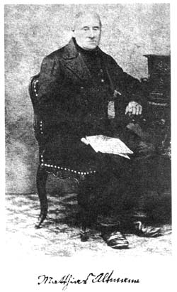 Photograph of Austrian poet Matthias Altmann (1790–1880).